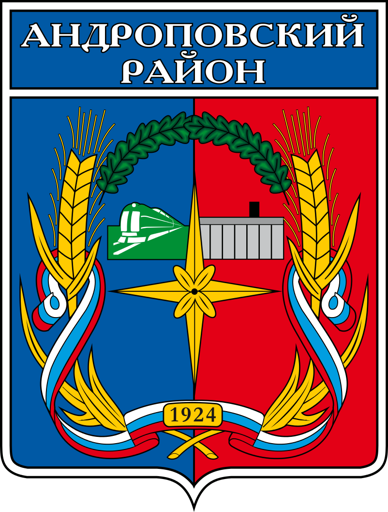 Andropovsky rayon (Stavropol Krai), coat of arms